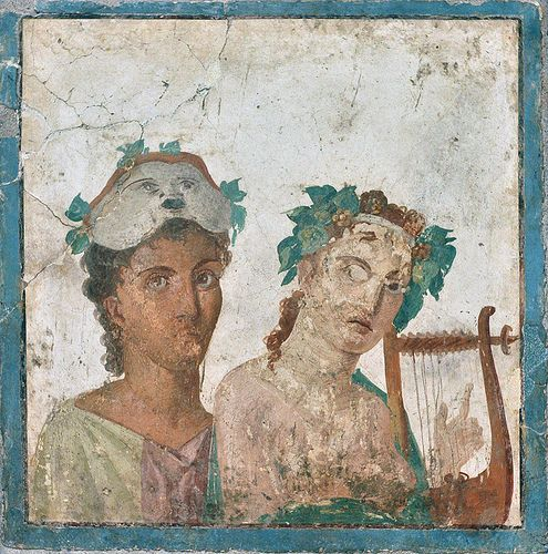 A Roman fresco from Pompeii, 1st century AD, depicting a man in a theatre mask and a woman wearing a garland while playing a lyre (a Greco-Roman stringed instrument); it is now housed in the National Archaeological Museum (Museo Archeologico Nazionale) of Naples, Italy.